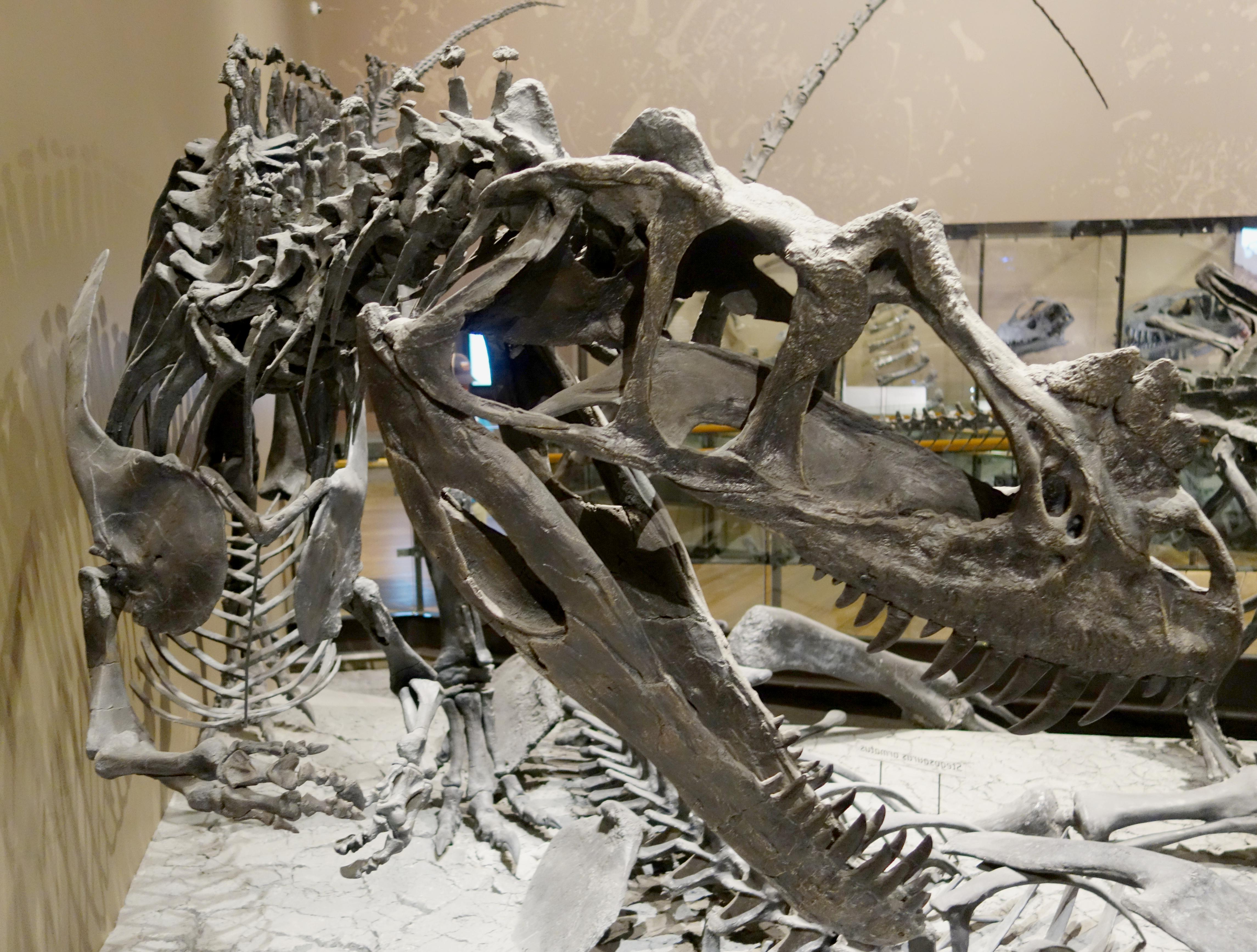 Cast of Ceratosaurus from the Cleveland Lloyd Quarry, Utah, on display at the Natural History Museum of Utah, Salt Lake City.